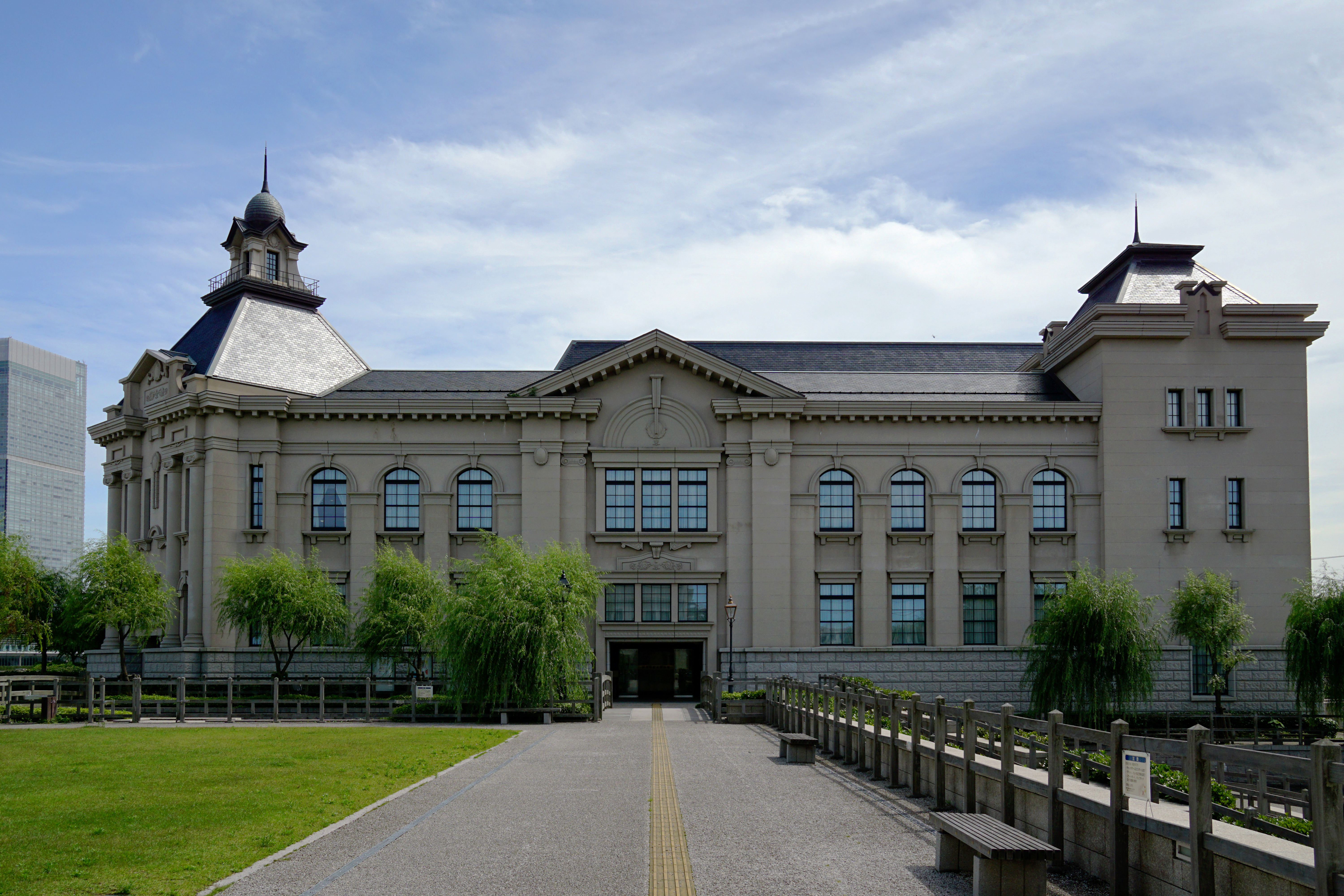 Niigata City History Museum Main Building, Niigata, Niigata prefecture, Japan.